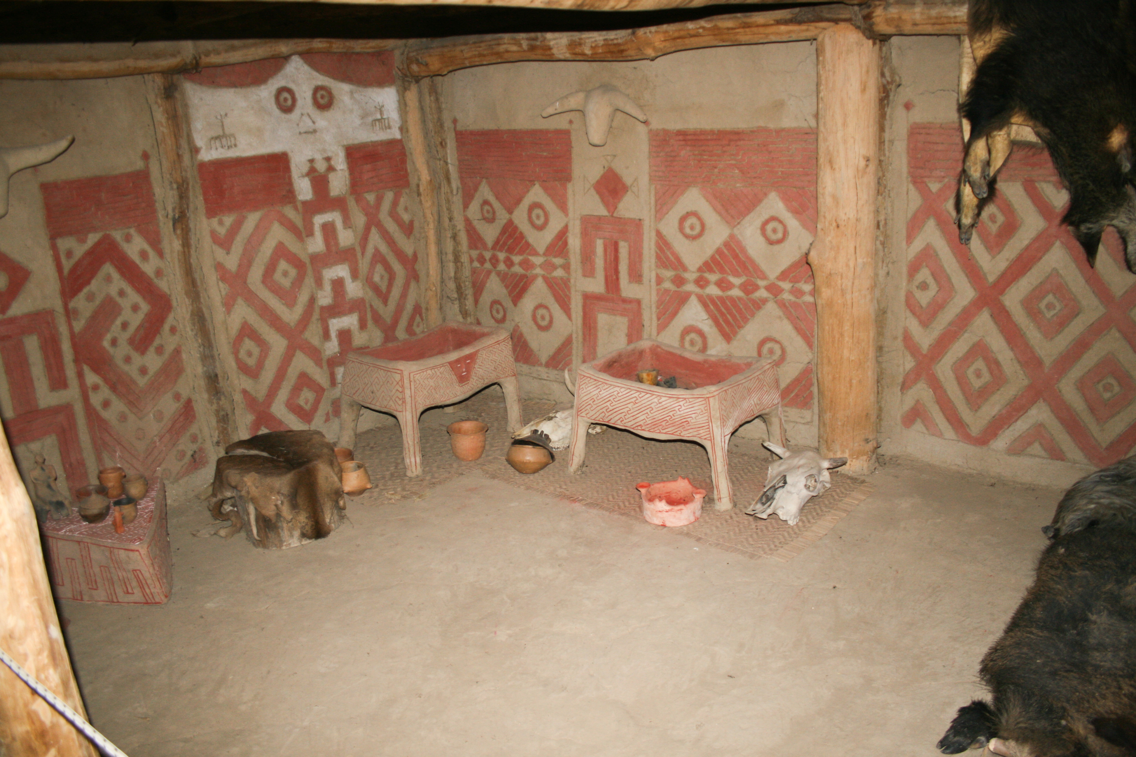 Neolithic house, inside, reconstruction